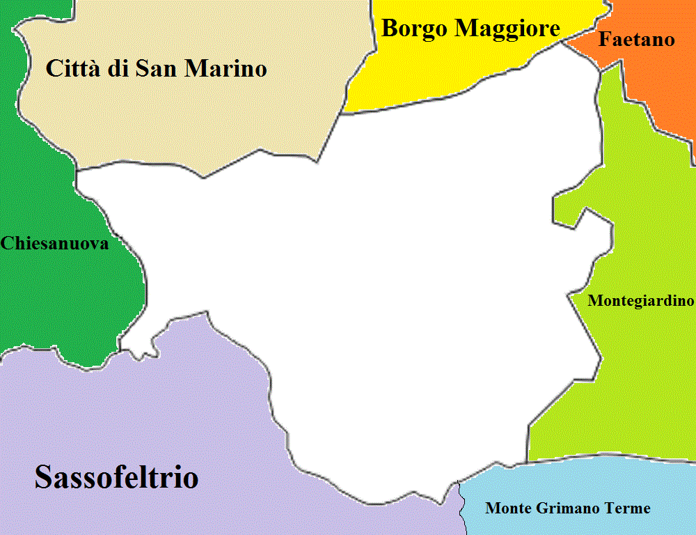 Map of Fiorentino (San Marino)